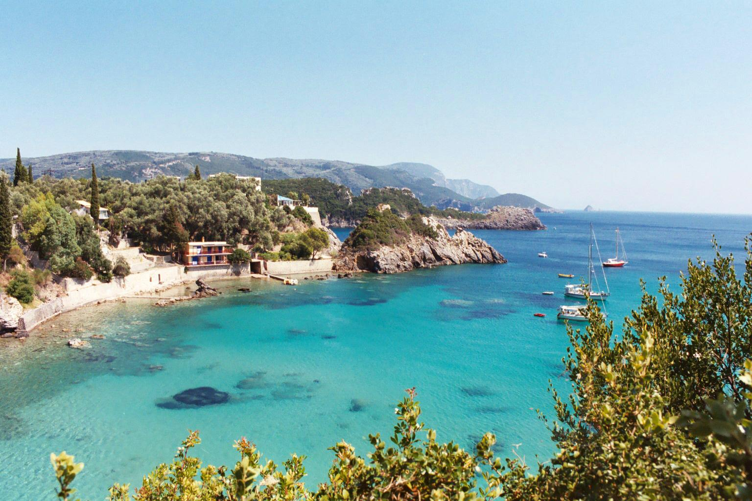 Corfu 2003The Corfu people liked